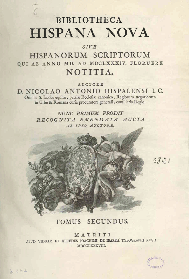 Title-page of "Bibliotheca Hispana nova" of Nicolás Antonio